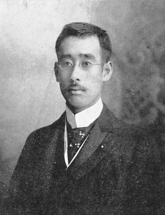 Goro Mouri